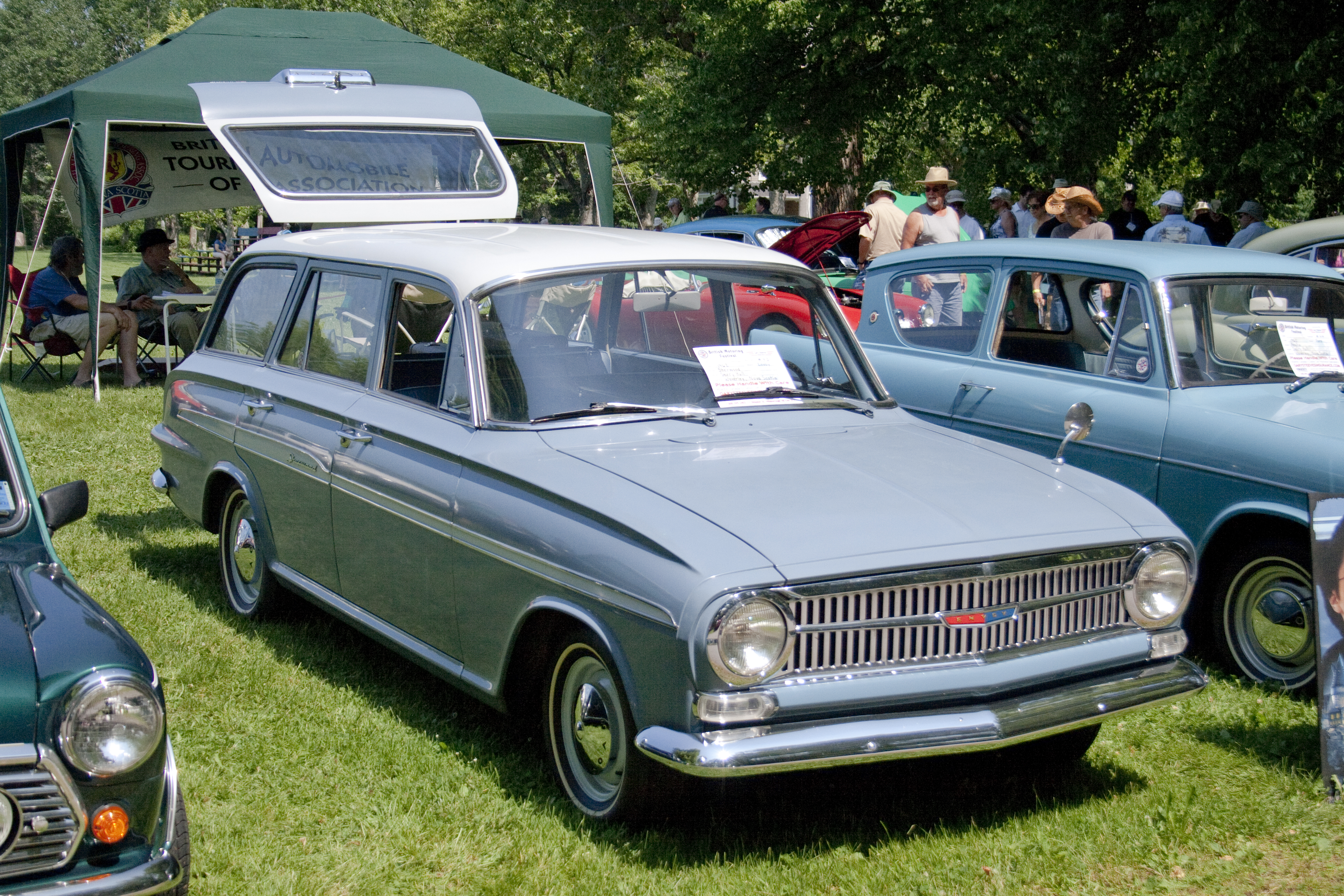 Envoy Sherwood Station Wagon. Canadian market variant of the Vauxhall Victor FB Estate. A brochure for this model can be seen here.